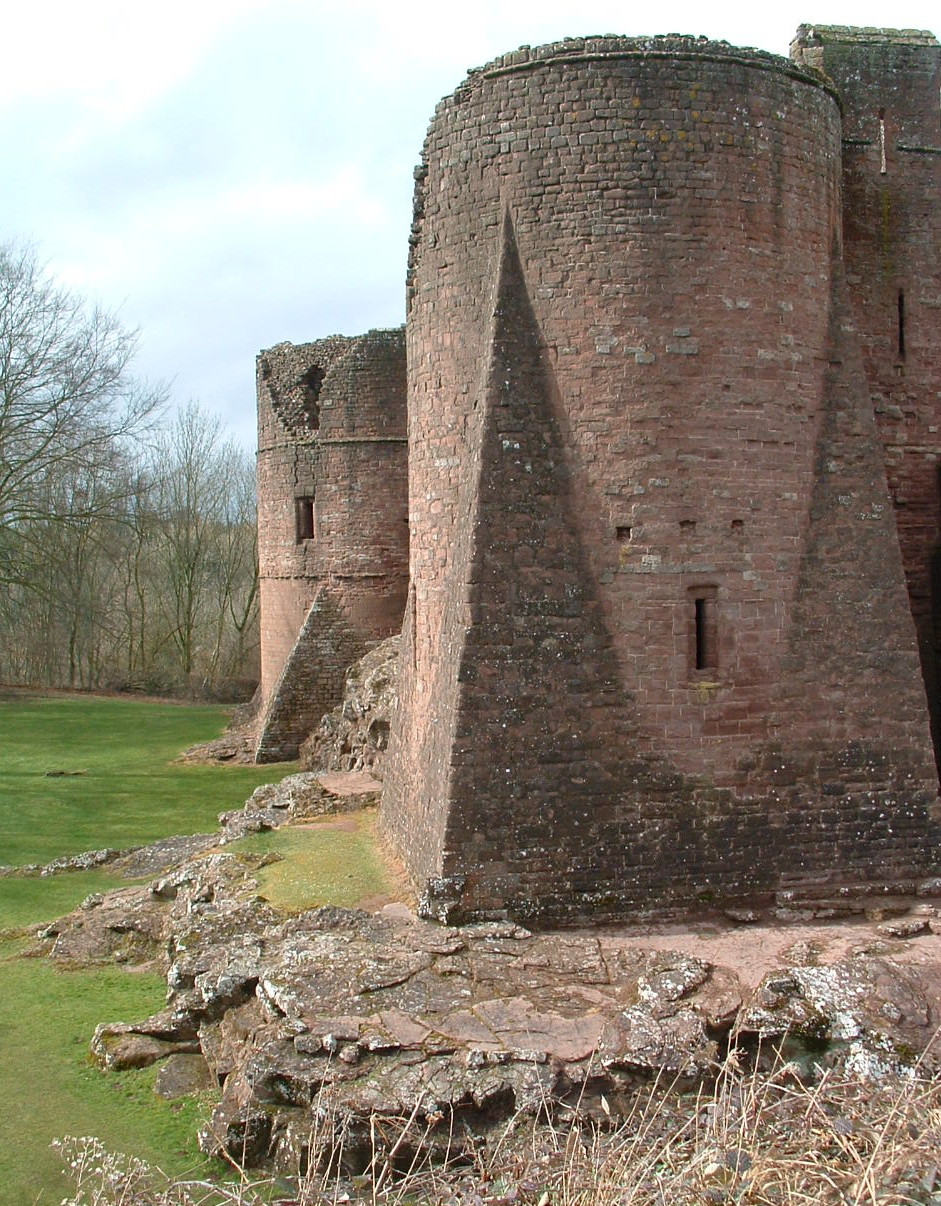 The south side of Goodrich Castle.